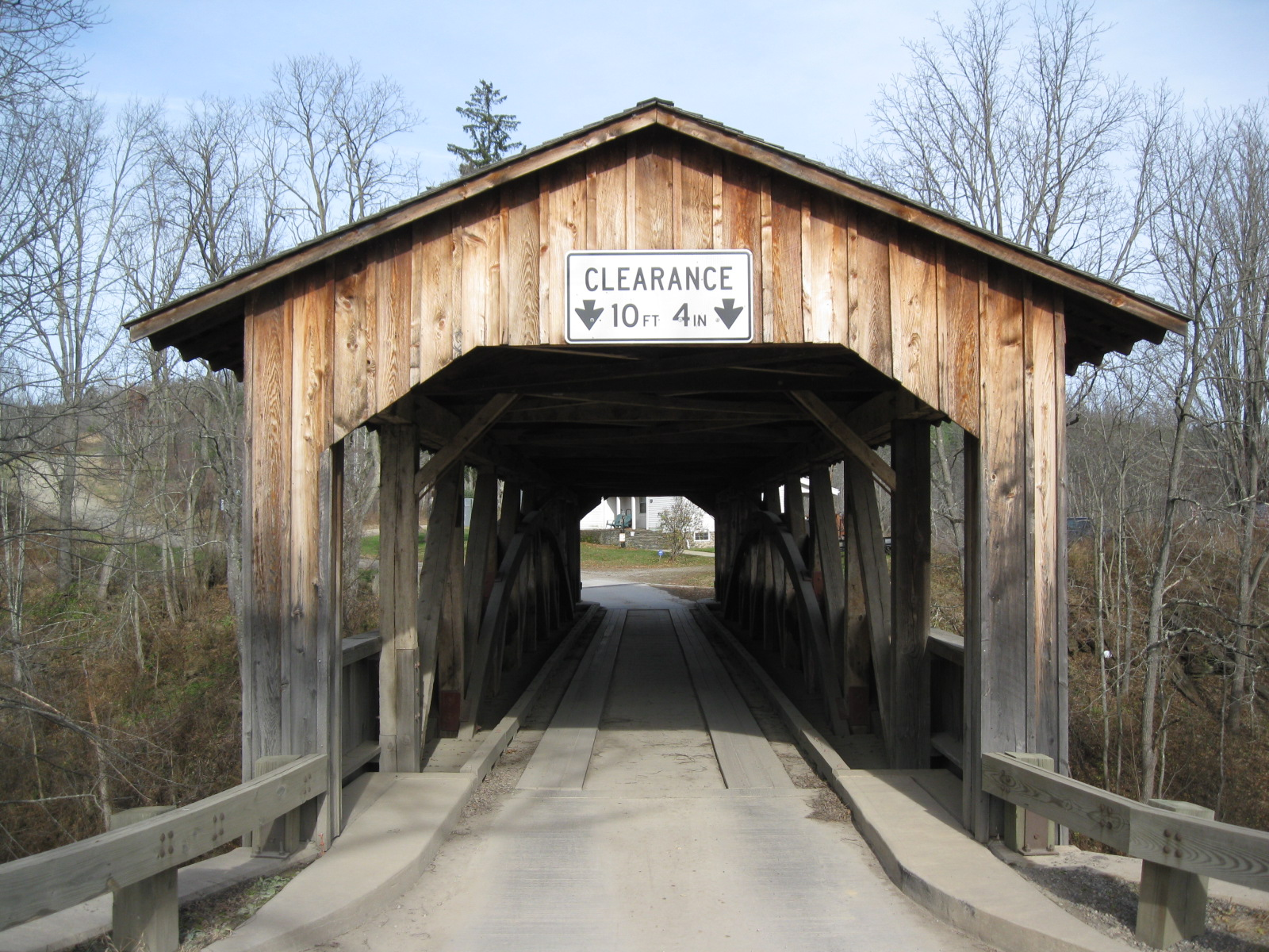 Luther's Mill Covered Bridge - Pennsylvania